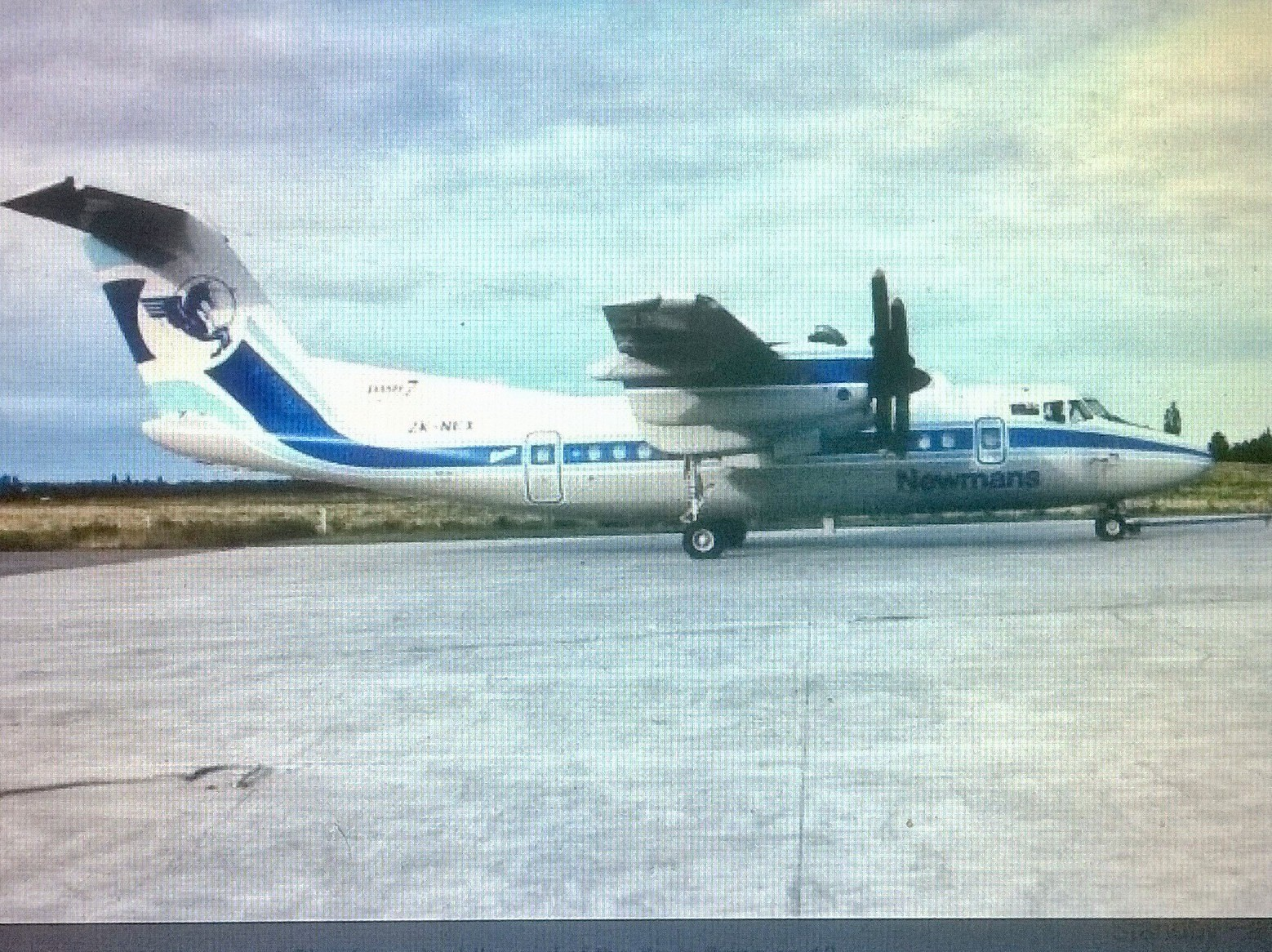 Photo of a Newmans Air Dash-7 aircraft